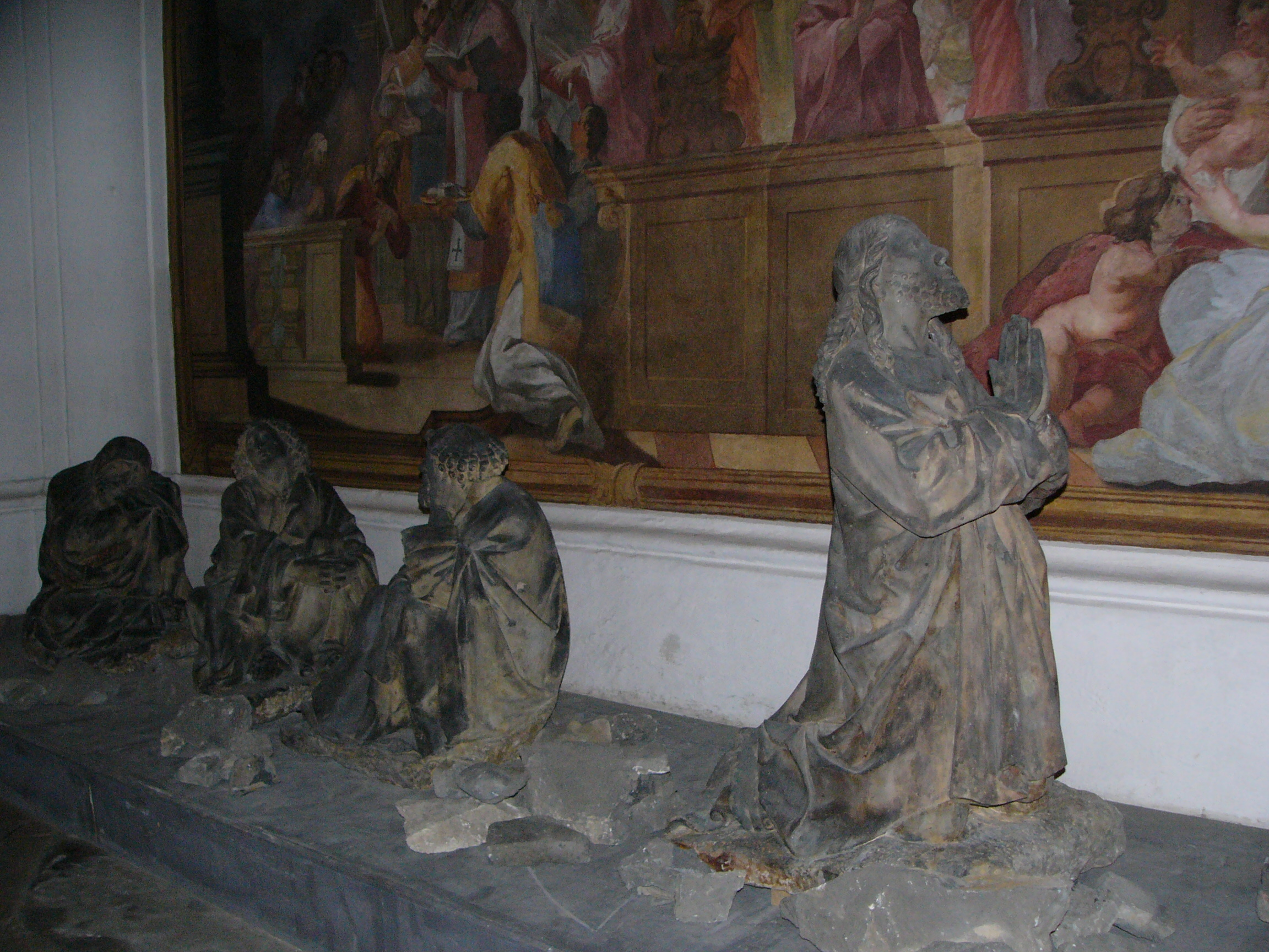 Statues in church kostel sv. Mořice in Olomouc (Czech Republic).